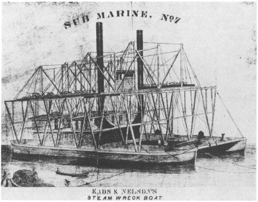 James B. Eads " Submarine No. 7", 1858